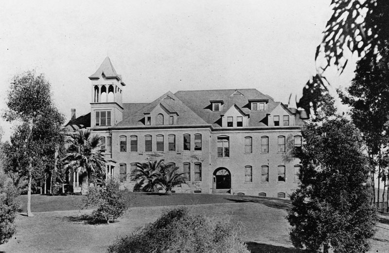 Whittier College in 1912. "Founder's Hall" Building. Burned down in late 1960's